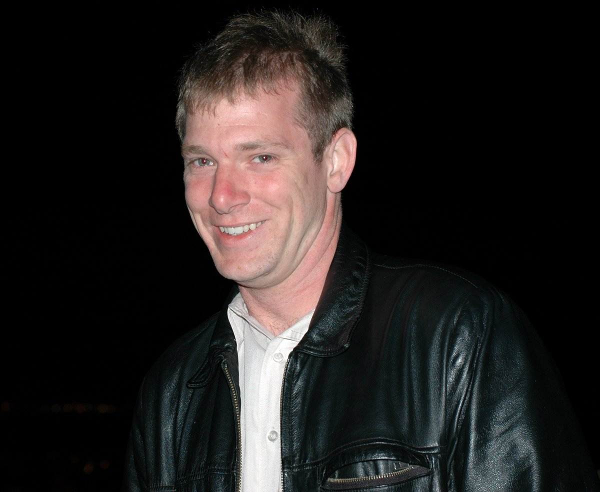 Brad Fitzpatrick. Crop of File:Brad Fitzpatrick by Anton Nossik.JPG.